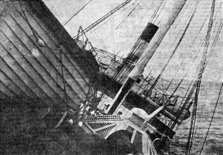 photo shows the ill-fated Vestris desperately battling the angry seas before it succumbed to its watery grave, listing to port so badly that part of the upper deck was awash. This dramatic picture of the Vestris was taken by a member of the crew, one of the last to take to the lifeboats